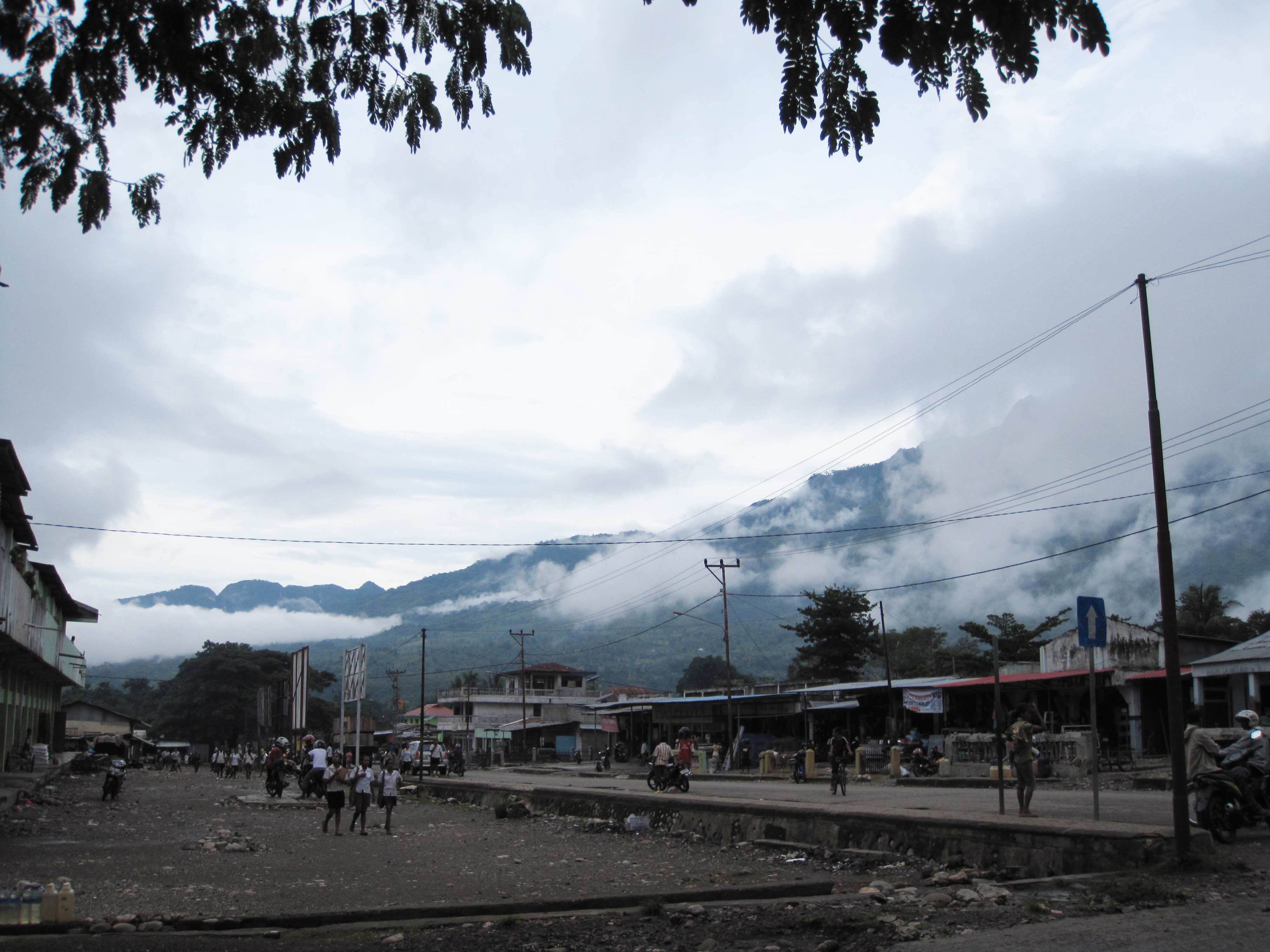 Main street and market of Maliana